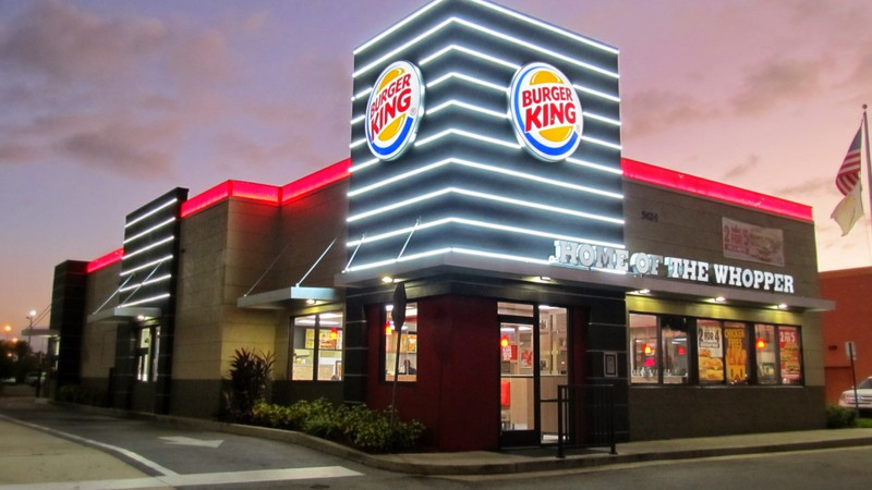 Burger King (near Universal Orlando)